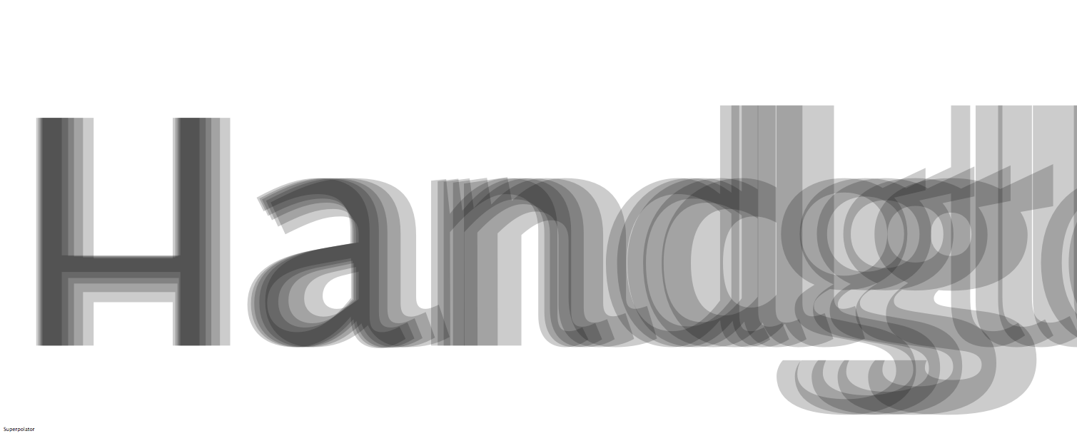 Overlaid weights from an unpublished FontFont typeface, showing how interpolation (or 'multiple master' technology) is used to create weights from light to bold. The weights were created using the computer programme Superpolator by Erik van Blokland.